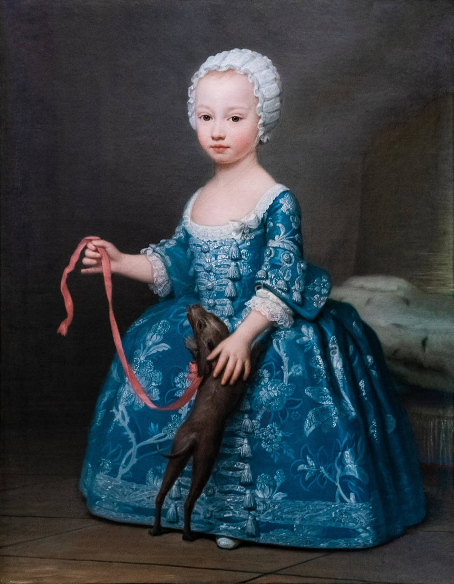 Portrait of Prince Vittorio Emanuele of Savoy (1759-1824), Duke of Aosta (later King Victor)